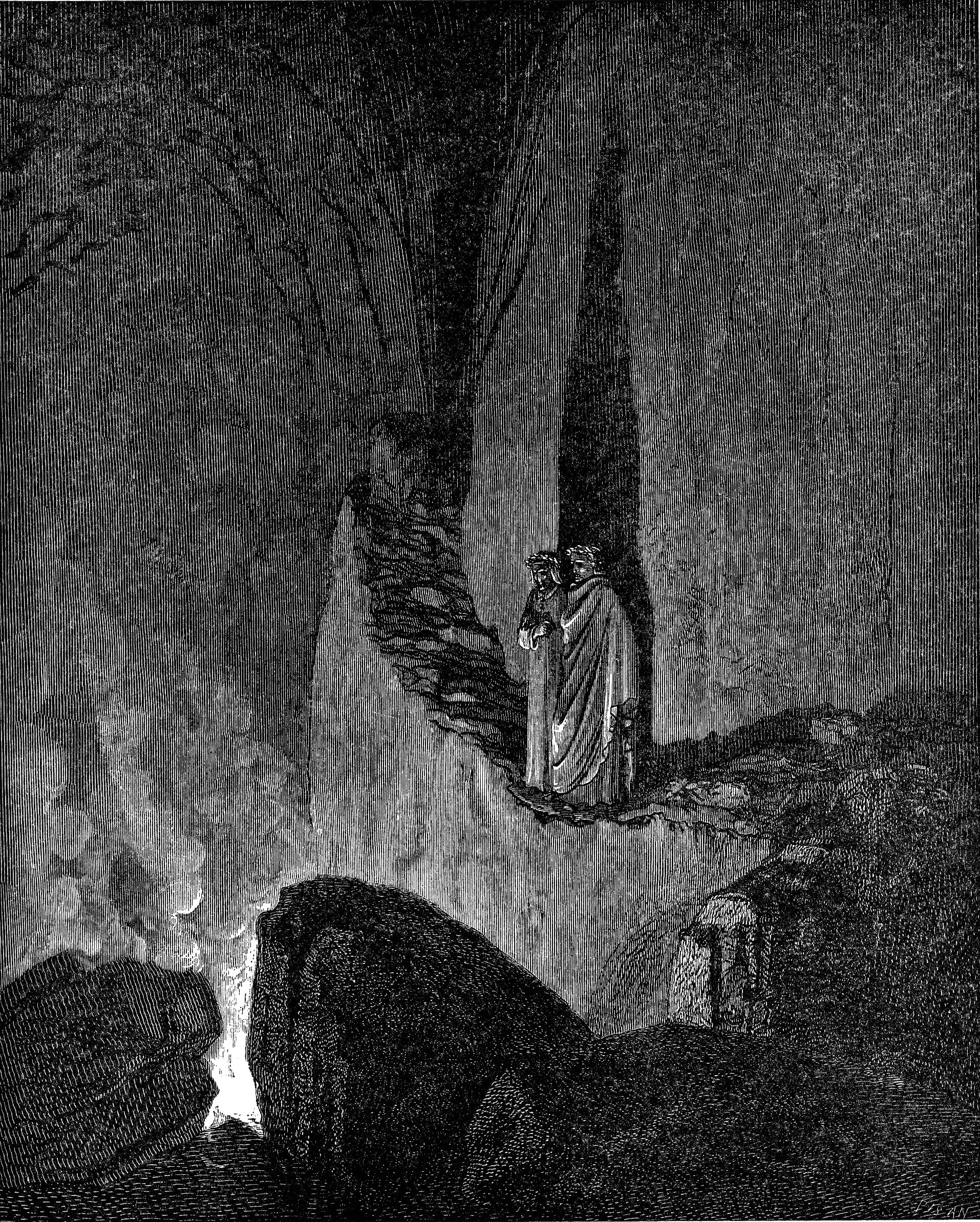 High resolution scan of engraving by Gustave Doré illustrating Canto XXVI of Divine Comedy, Inferno, by Dante Alighieri. Caption: The Flaming Spirits of the evil Counsellors